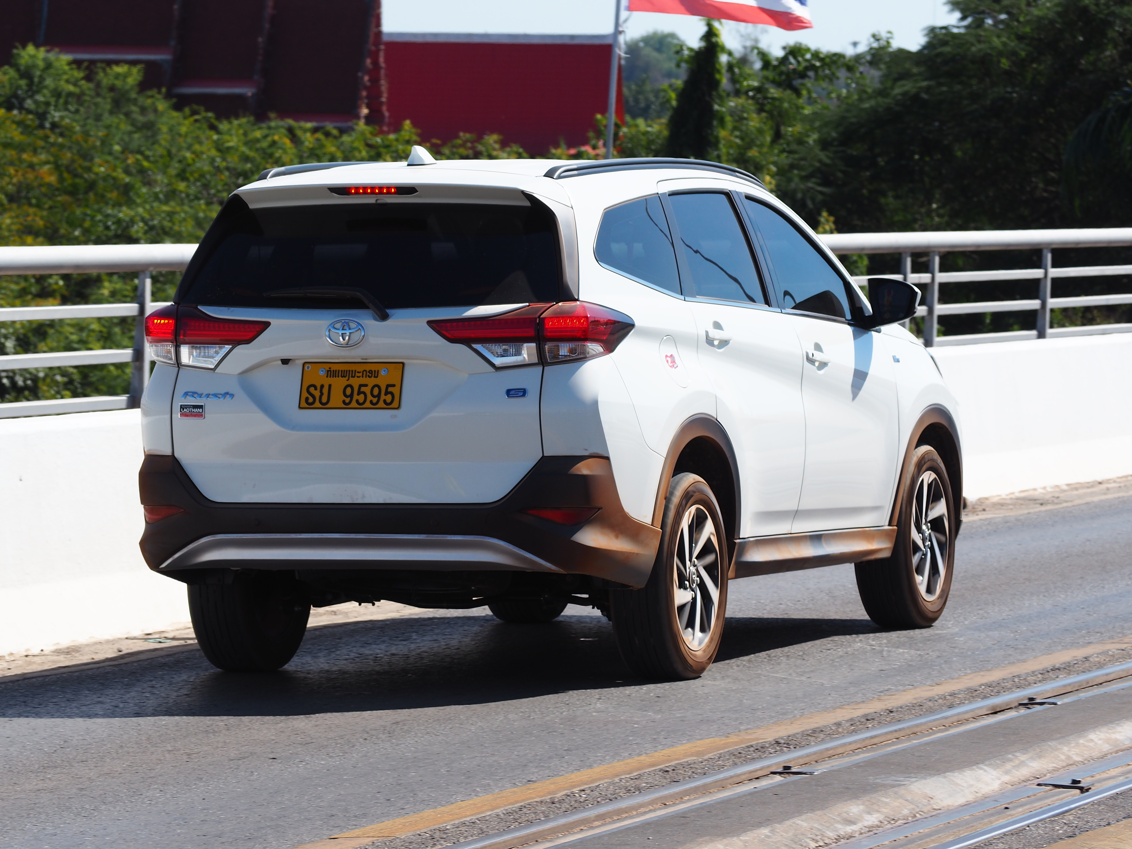 2018 Toyota Rush 1.5S in Thai-Lao Friendship Bridge, Nong Khai, Thailand.